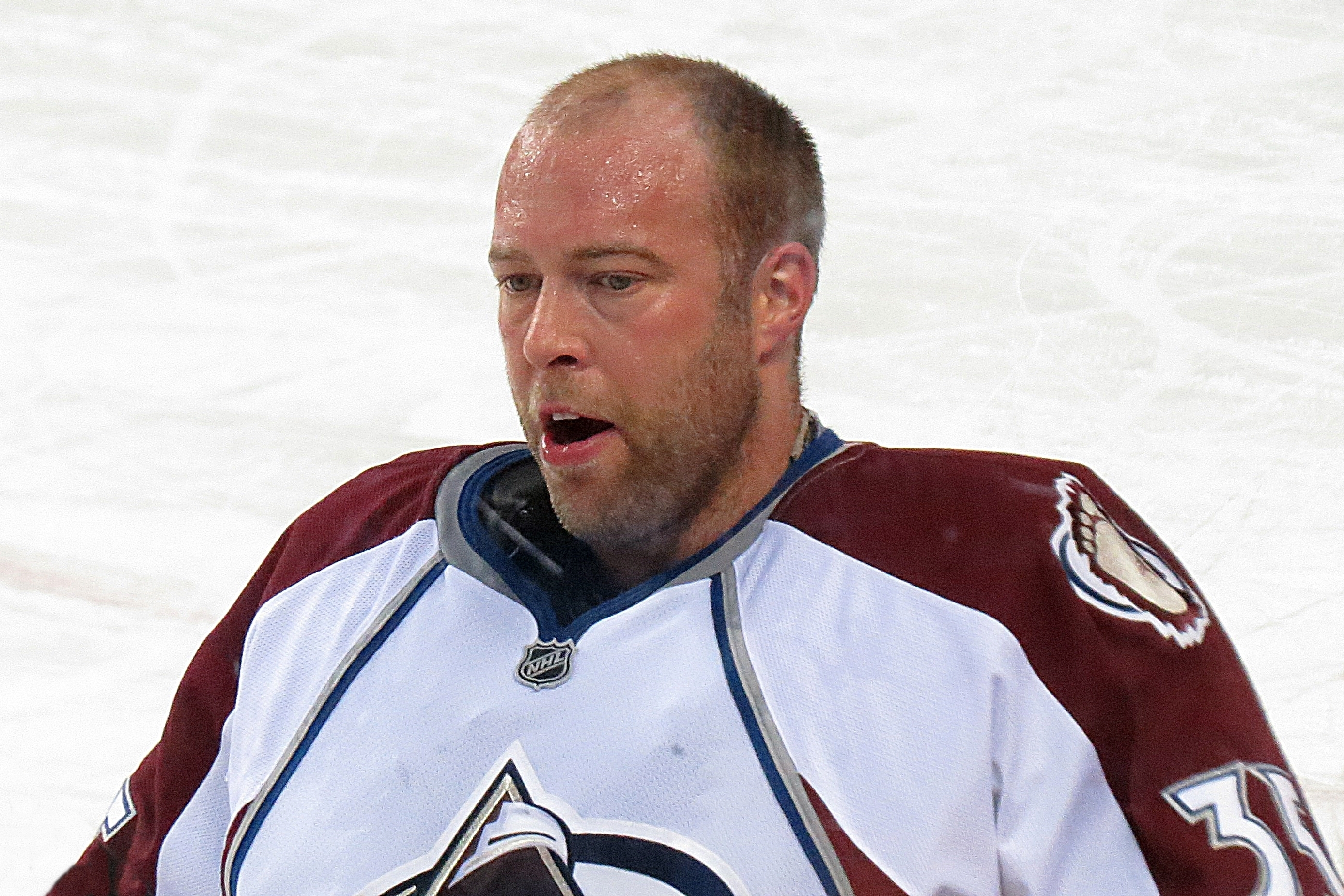 Goaltender Jean-Sébastien Giguère of the Colorado Avalanche during the 2013–14 season.